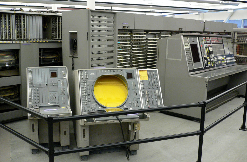 IBM’s SAGE is a large semi-automated air defense system from the Cold War era. It would analyze radar data in real-time to identify Soviet bombers. It is the subject of Puzzle 47. You can see about half of the wall of vacuum tubes; the other half did not fit in the frame. Weight: 300 tons Cost: ~$10 billion This “company-making” sale was made personally by IBM founder Tom Watson, Sr. Built in 1954, deployed in 1958, obsolete by 1960. It had a built-in intercom system and cigarette lighters/ashtrays at each console. The last of 27 installations was shut down in 1983 (in Canada). In the final years, to the chagrin of the USAF, replacement vacuum tubes had to be bought from Soviet bloc countries. The software development “employed about 20% of the world’s programmers at the peak of the project. When it was complete, the 250,000 lines of code was the most complex piece of software in existence.” (Computer History Museum details)